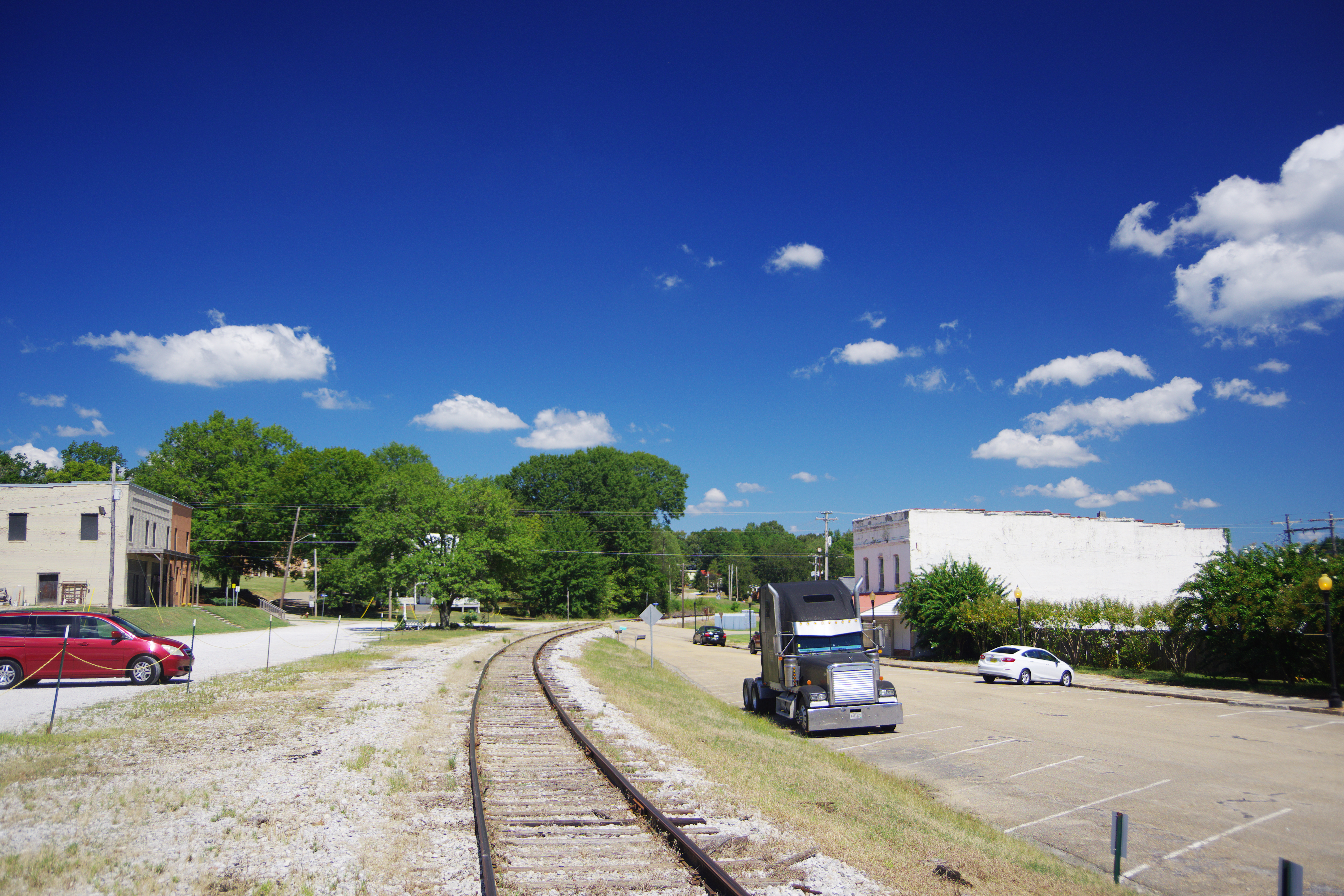 Railroad tracks and business district of Blue Mountain, Mississippi, United States.